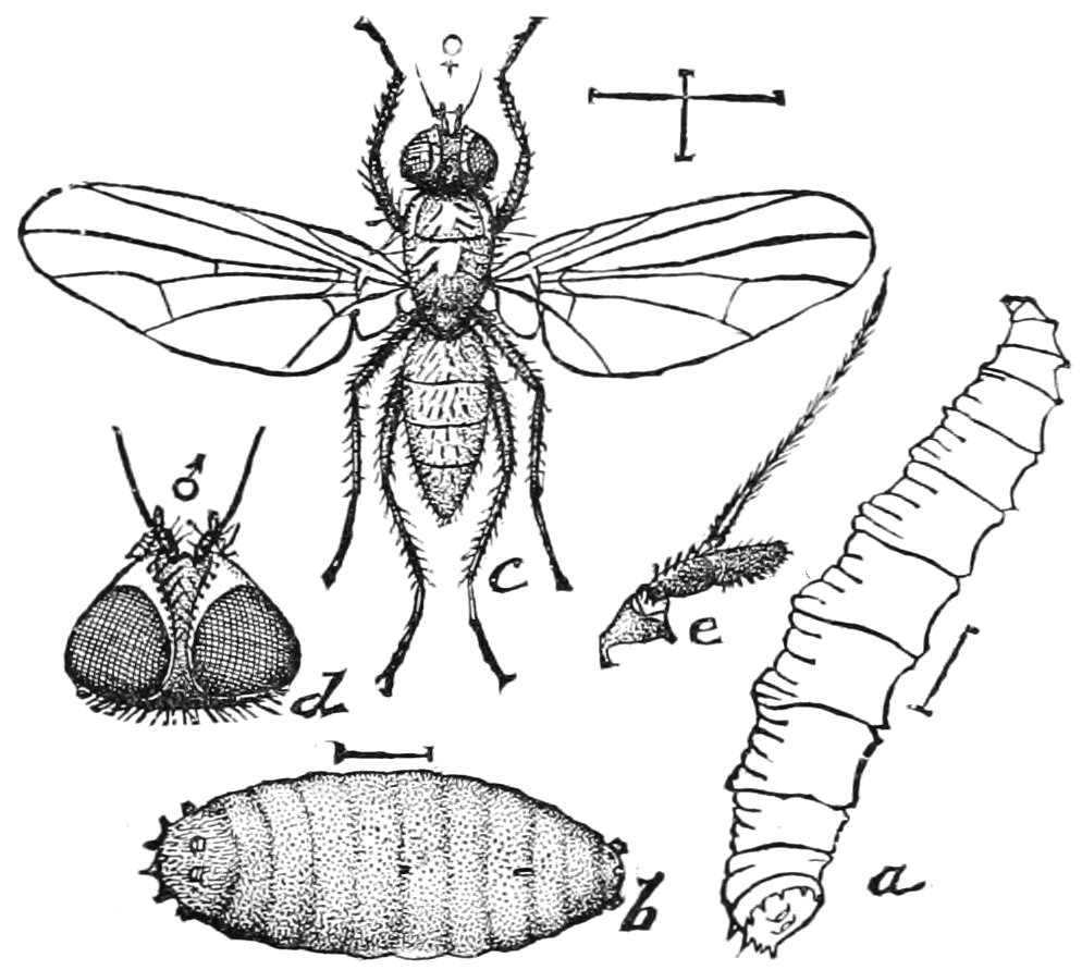 Root maggot and its stages of development